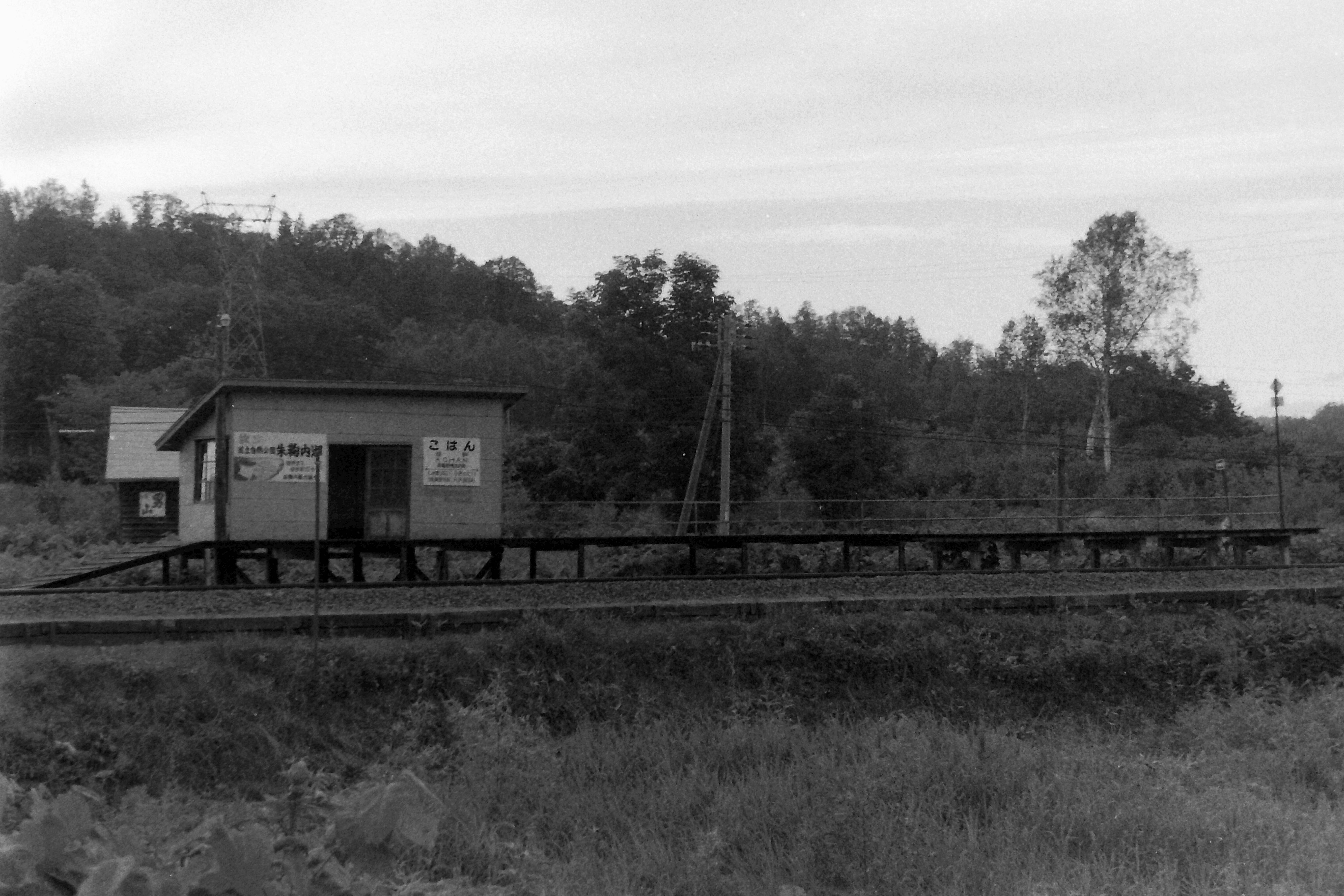 Kohan Station, Shinmei-line